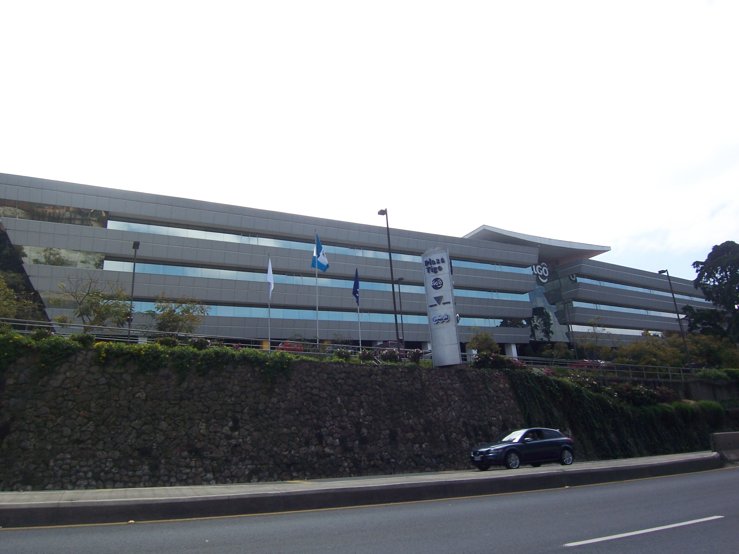 Plaza TIGO